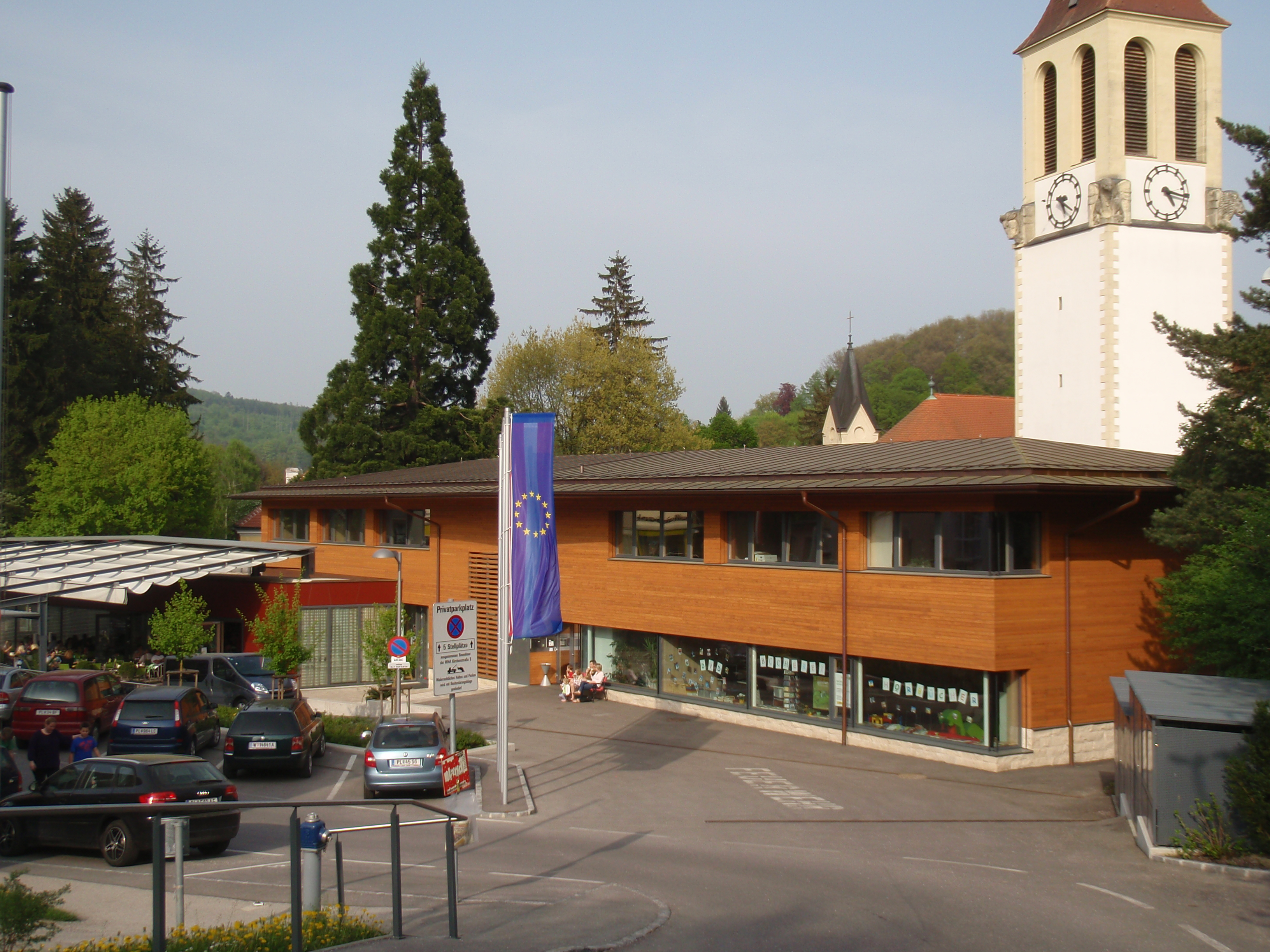 Cityhall of Eichgraben, Lower Austria. In front the Library, to the left the "Kaffee-Konditorei", a coffeehouse with pâtisserie. Behind die steeples of the both Roman Catholic Churches.